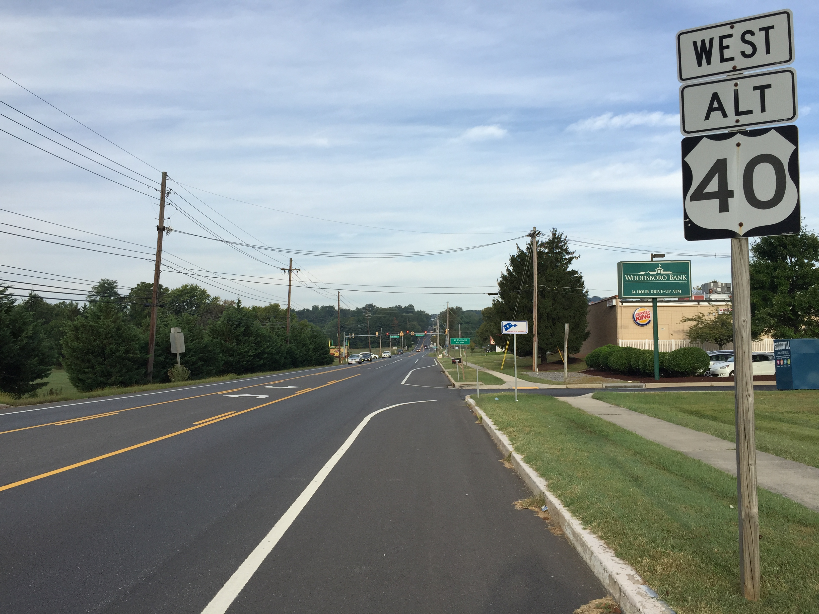 View west along U.S. Route 40 Alternate (Old National Pike) at U.S. Route 40 (Baltimore National Pike) in Braddock, Frederick County, Maryland